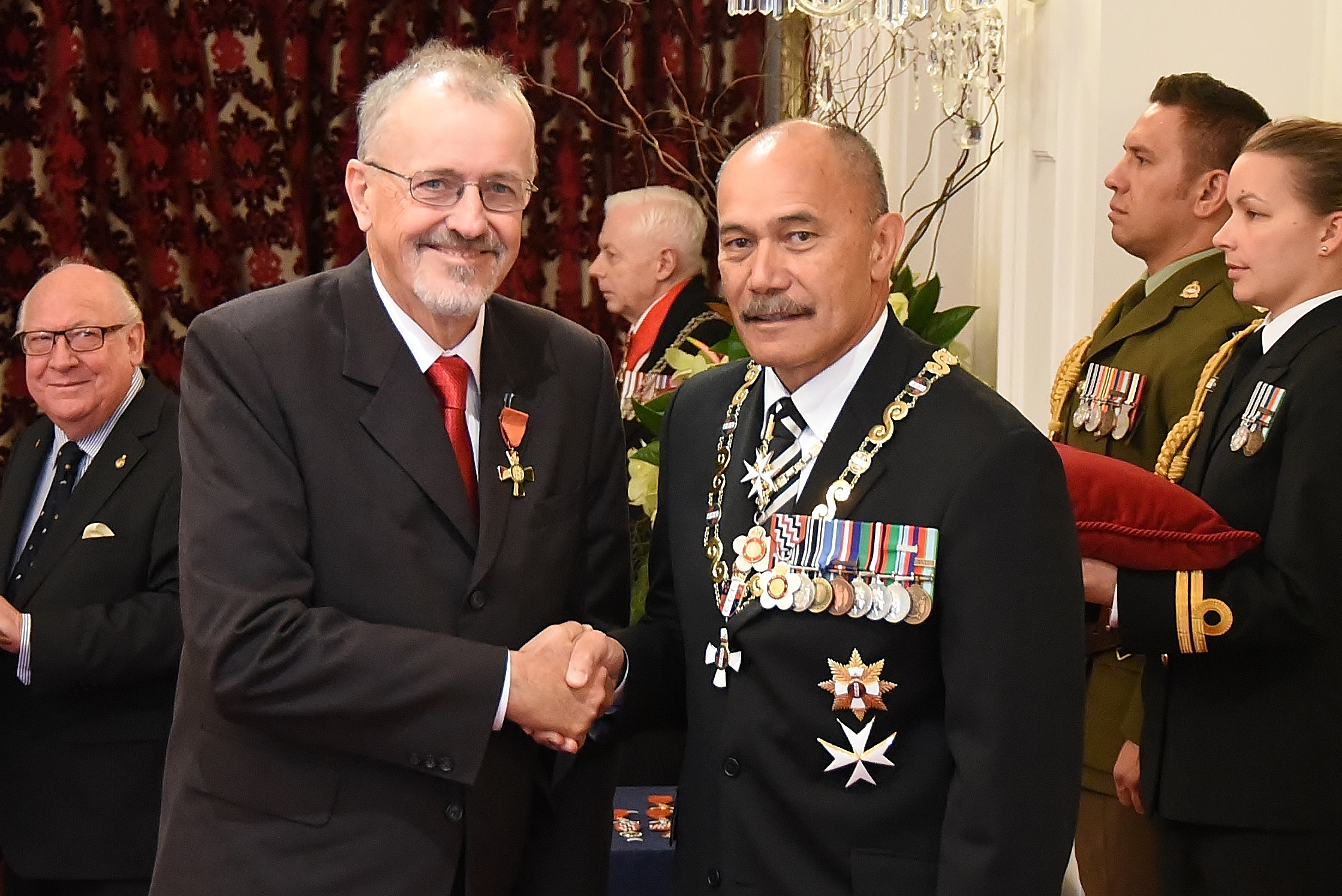 Emeritus Professor Alan Bishop (left), of Hamilton, after his investiture as ONZM, for services to Māori and education, by the governor-general, Sir Jerry Mateparae, on 14 April 2016